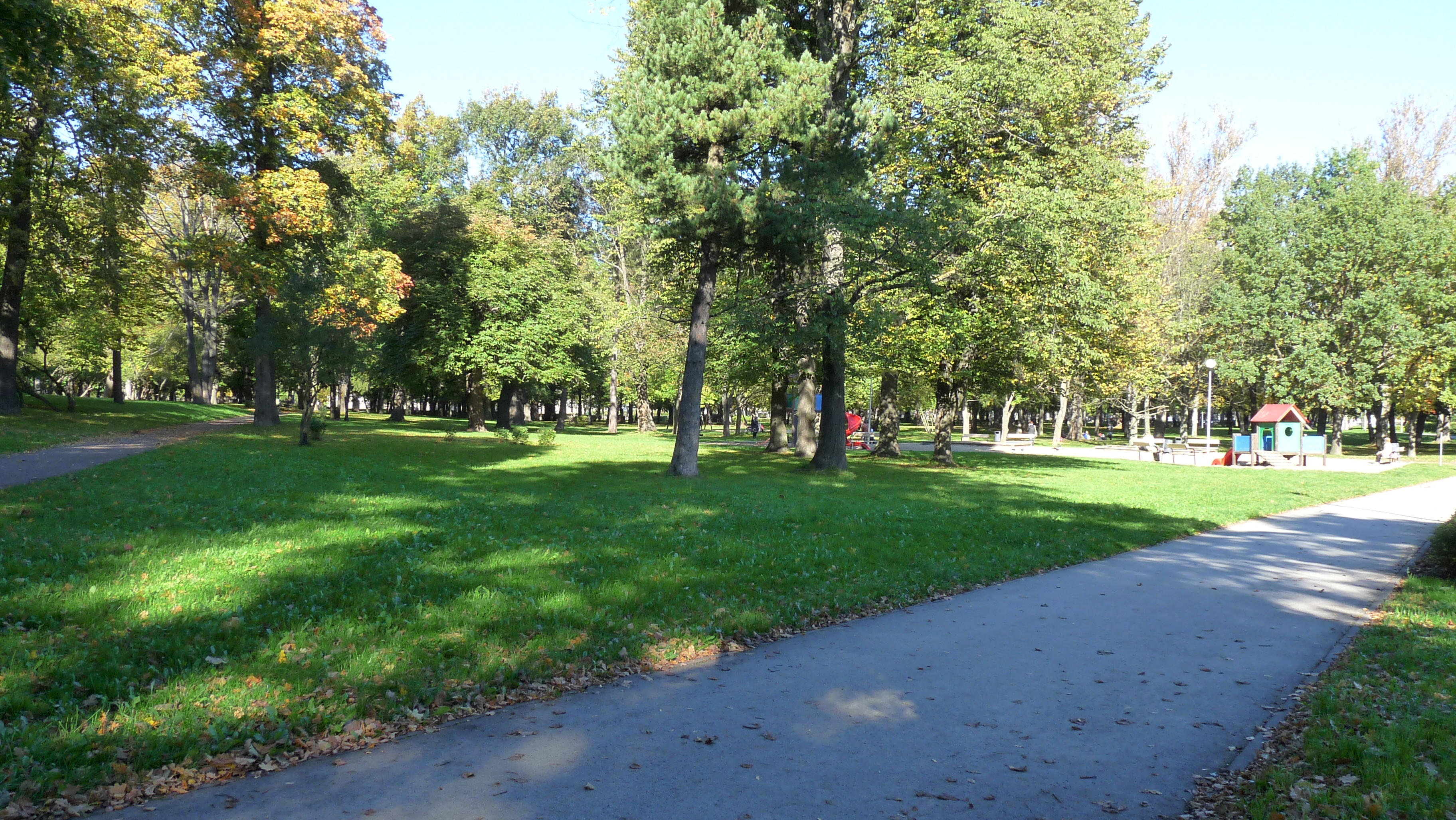 Kopli park in Tallinn, Estonia.